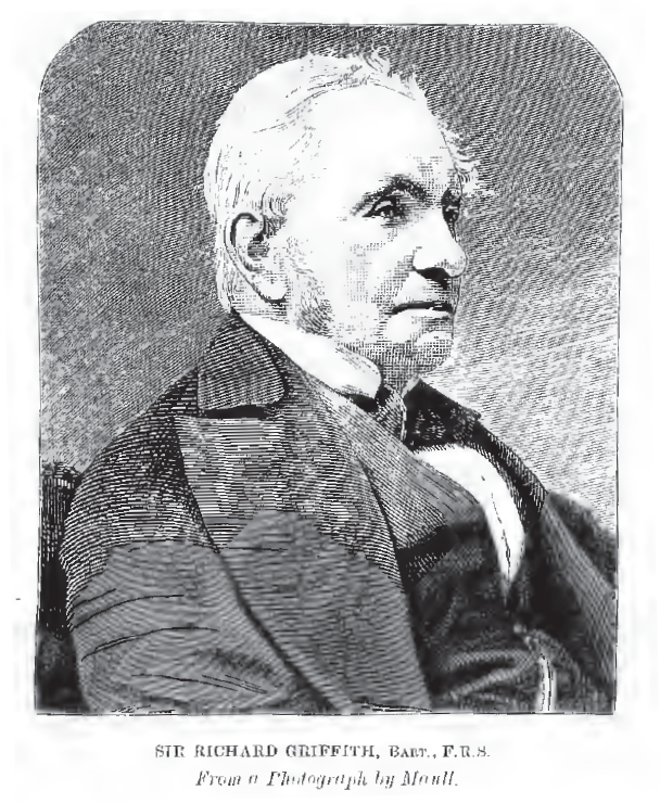 Sir Richard Griffith